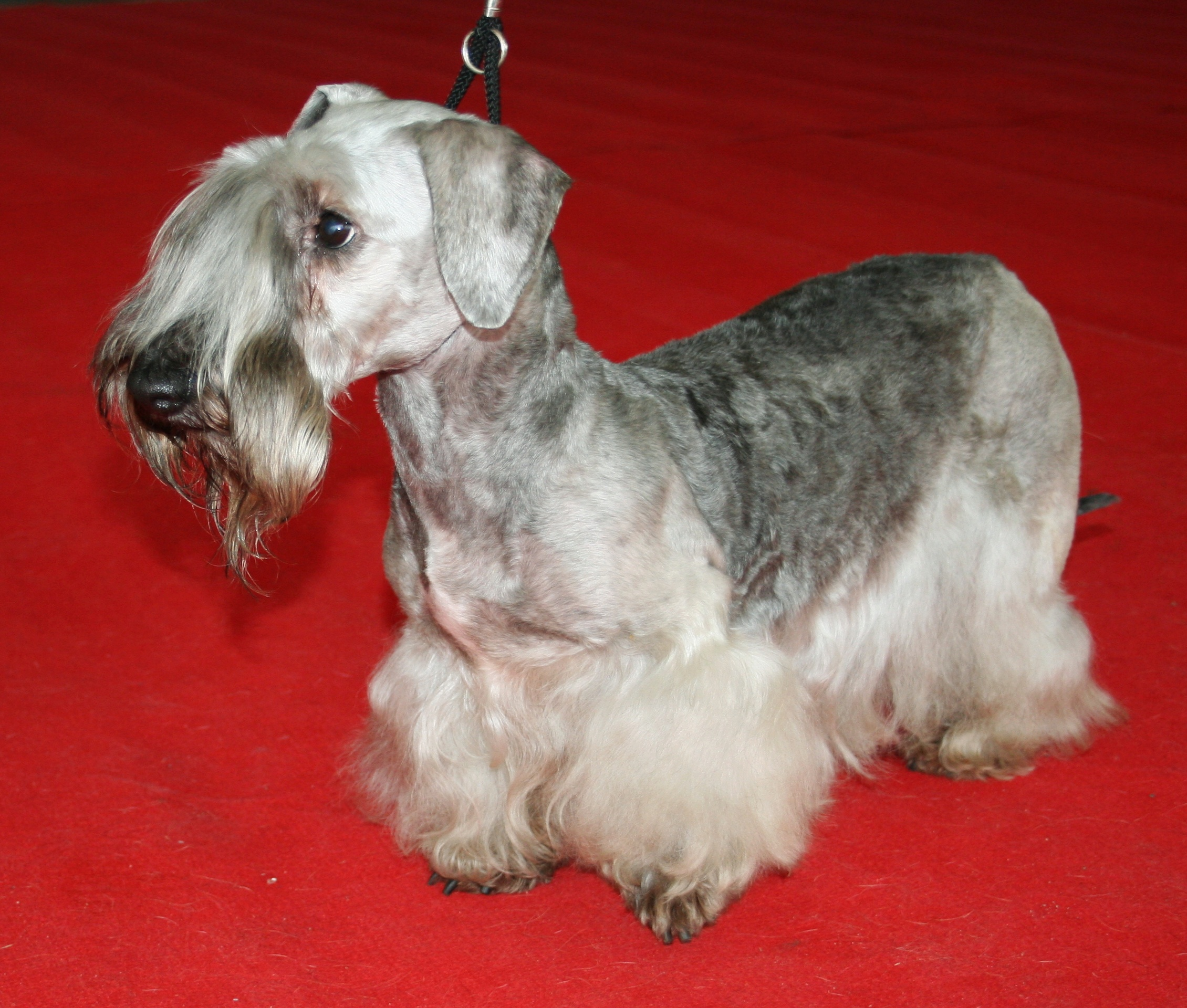 Cesky-Terier - bitche during the international dogs show in Katowice, Poland. It's a female, her name is Amelka Uśmiechnięta Wielocętka. The breeder and owner is Aleksandra Lewalska - Piguła from Poland.